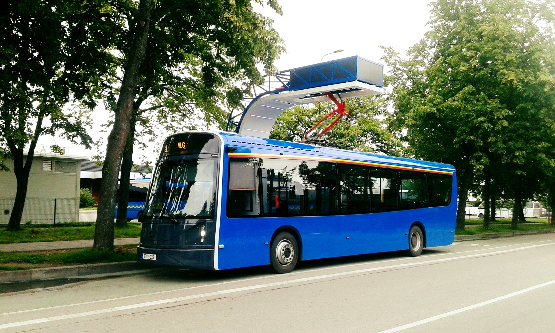 Lithuanian electric bus Dancer, Klaipėda